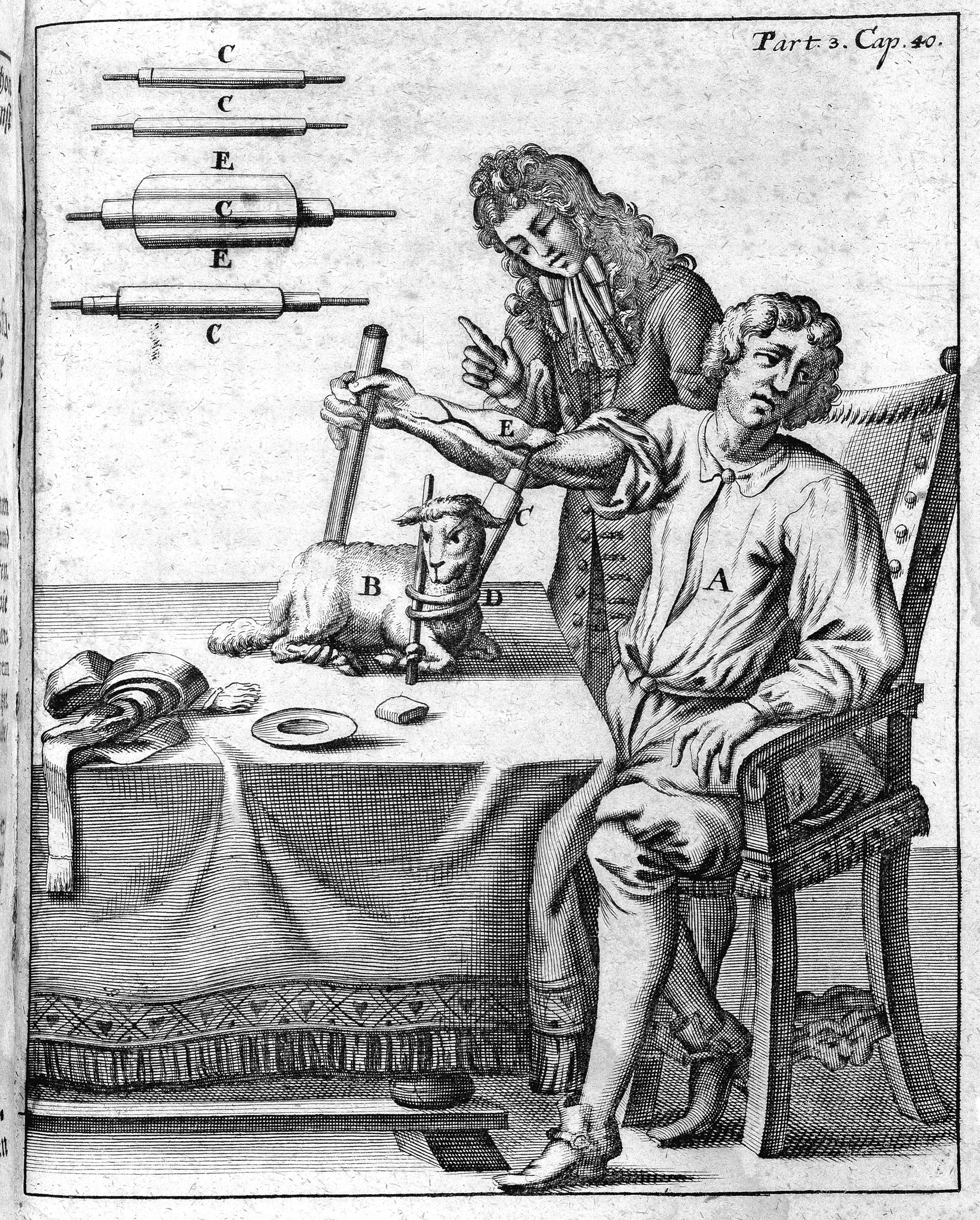 A early blood transfusion from lamb to man. Rare Books Keywords: cardiology: blood transfusion; epb; Medicine